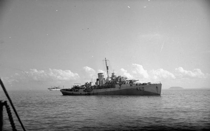 Flower-class corvette HMS Lavender (K60) at anchor